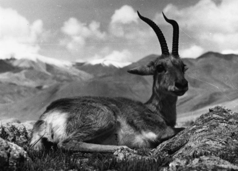 A Tibetan Gazelle, or Goa